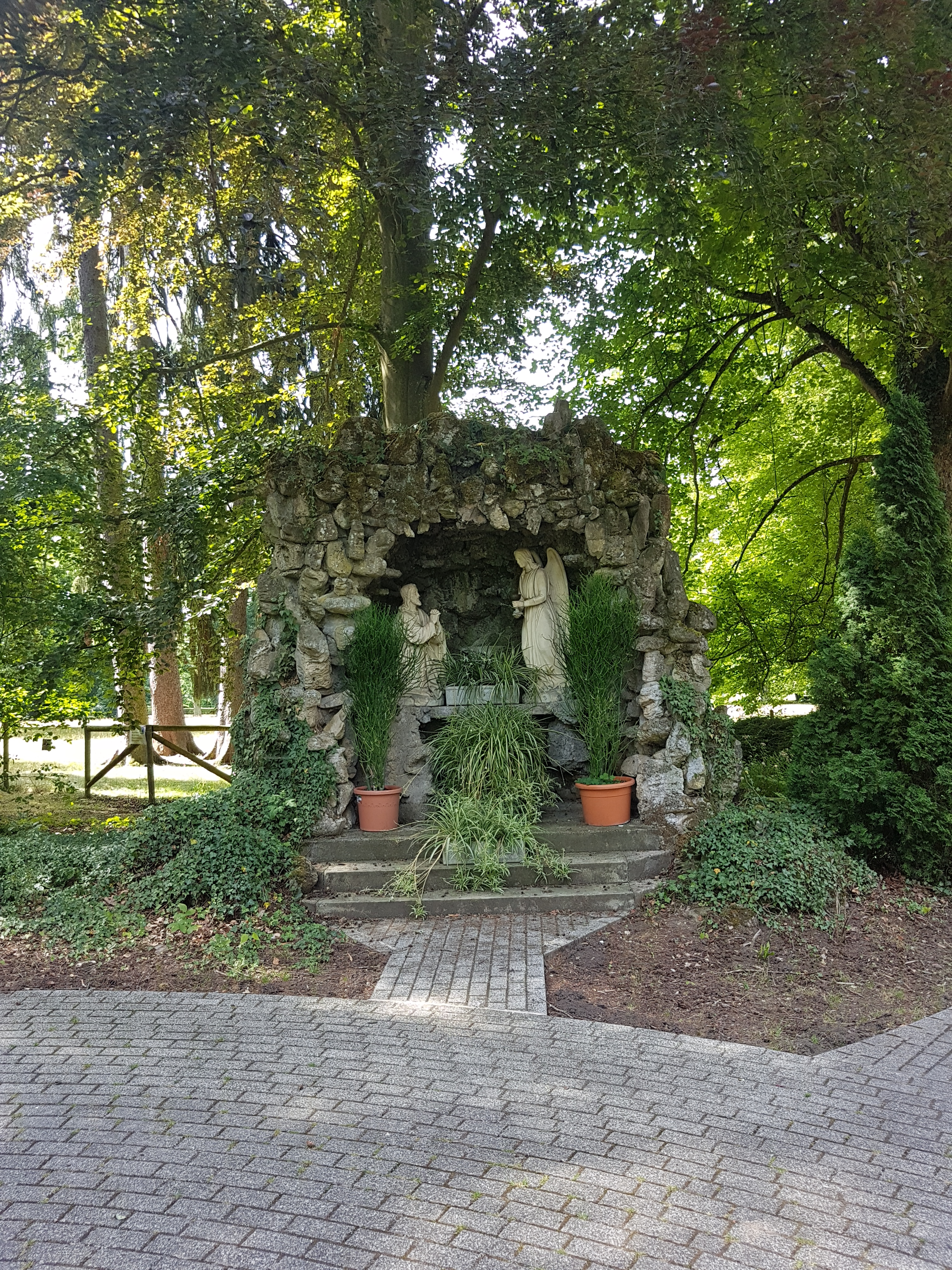 Park of the castle of Heisdorf in Luxembourg. Castle Heisdorf is built in Renaissance style (Rambouillet style, see: Rambouillet Castle). Heisdorf (Luxembourgish: Heeschdref)is a district of the Luxembourg municipality of Steinsel (Luxembourgish: Steesel). This existing architecture was taken over more or less by the other extensions or it was more or less successful trying to take into account. Owners of the castle since 1917 are the sisters of the Christian doctrine who run a retirement home here.